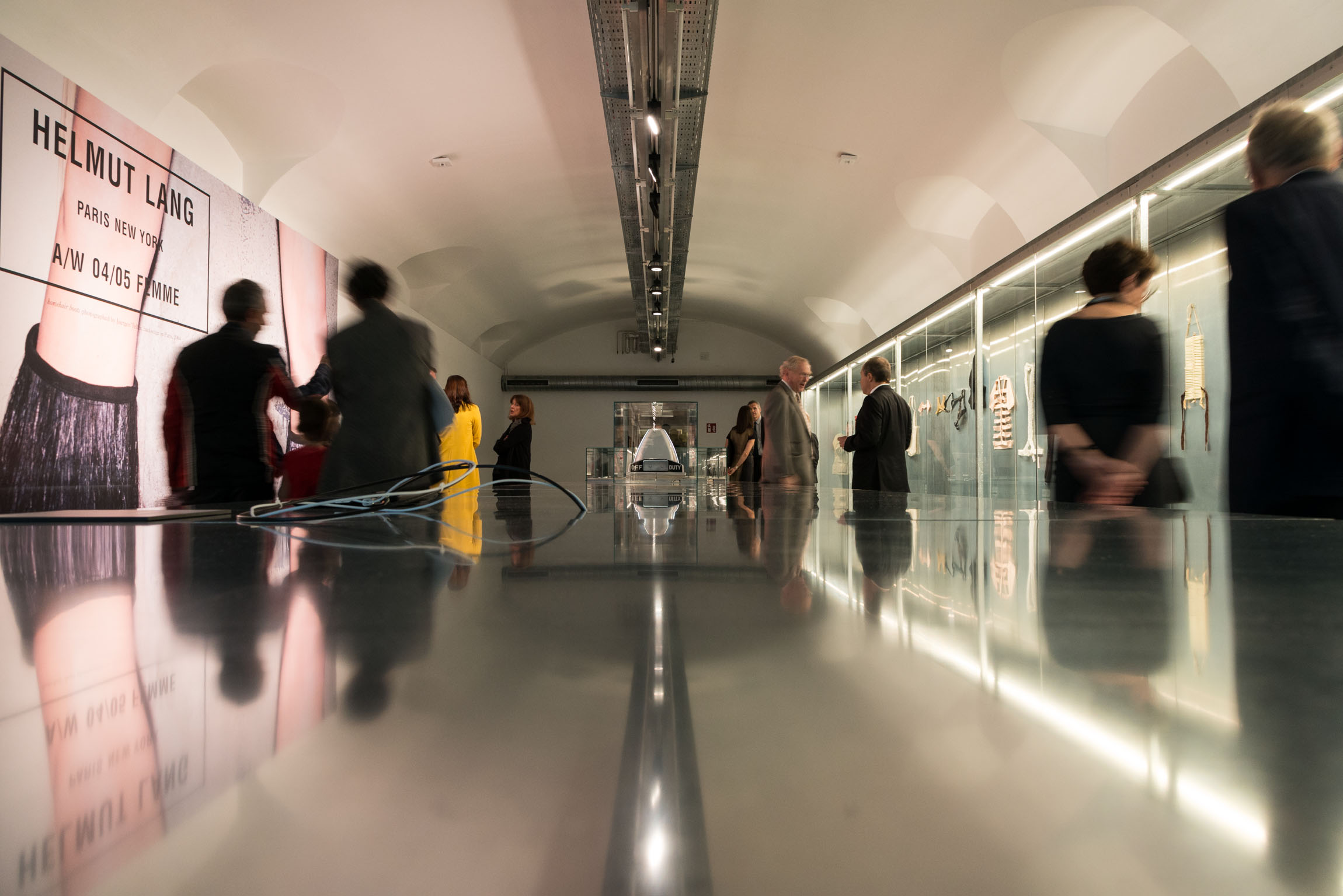 Exhibition view